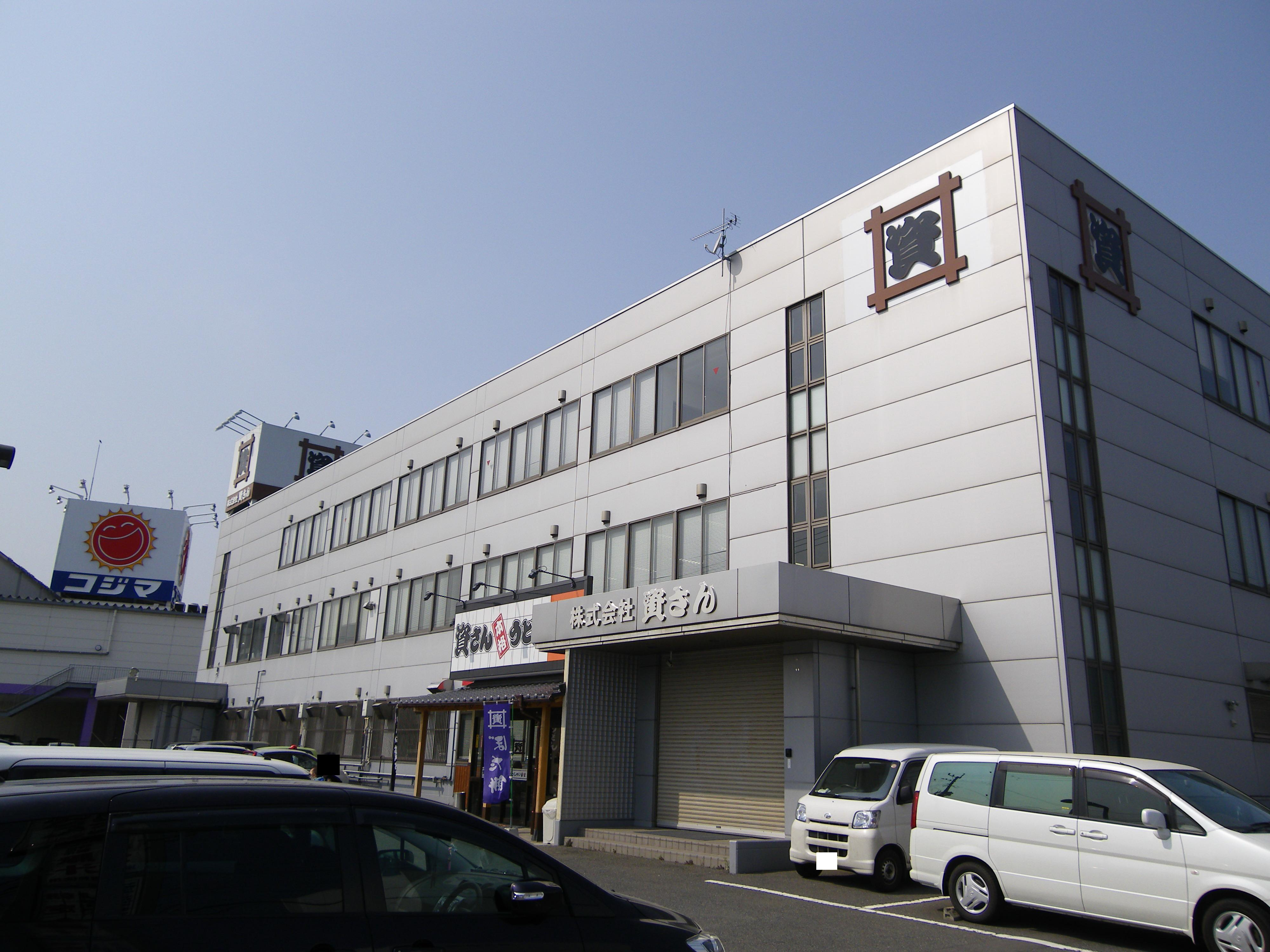 SUKESAN LTD.(the restaurant business)